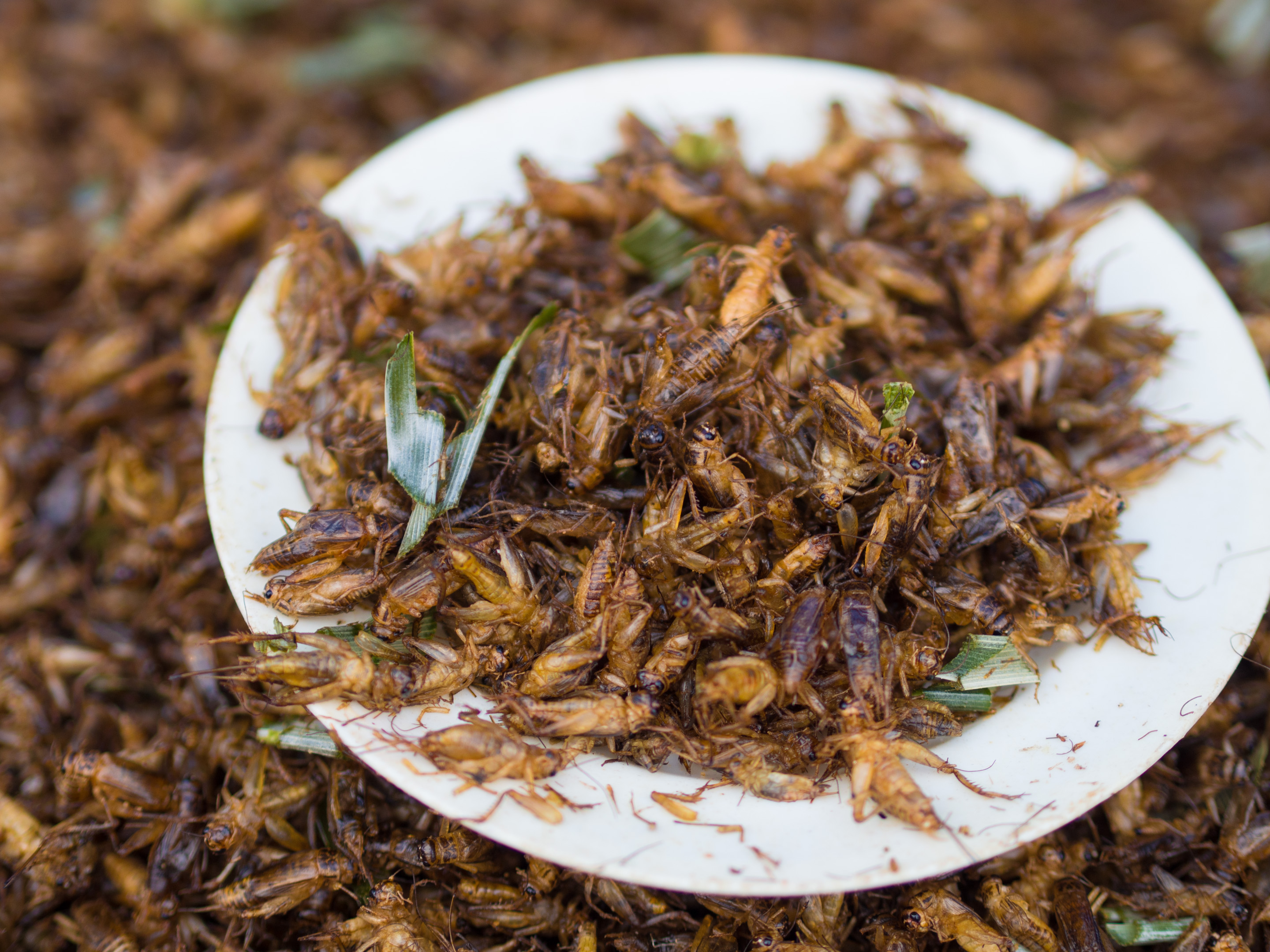 Chingrit thot (Thai script: จิ้งหรีดทอด) are deep-fried crickets. The crickets used in Thailand can be either Gryllus bimaculatus or, as shown in the image, Acheta domesticus (